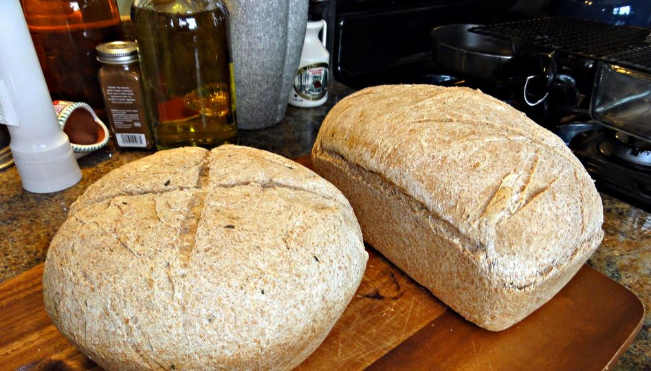 Rosemary Bread Whole wheat bread made with rosemary from NOLA Green Roots.